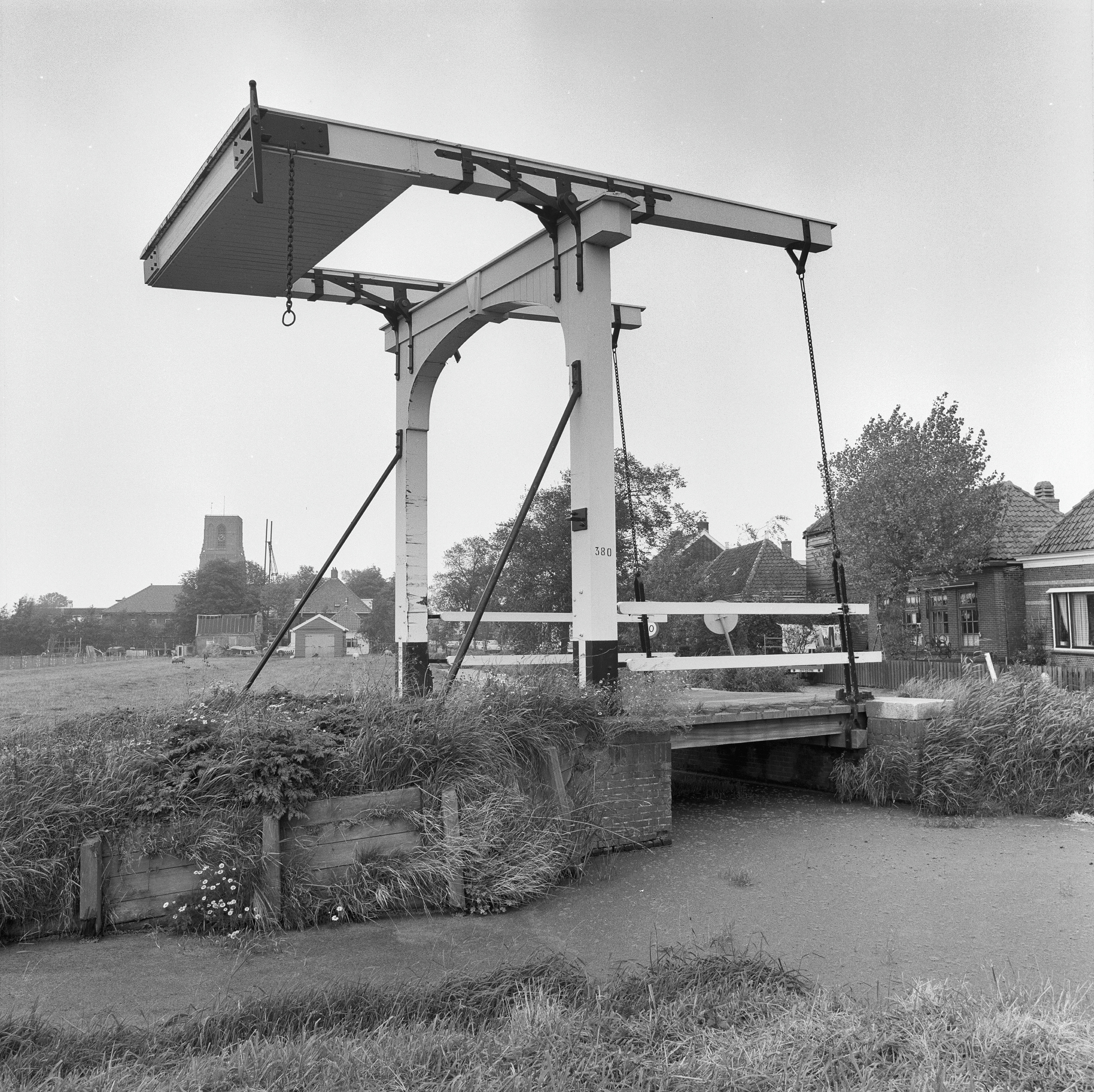 Bridge 380 ("Gerrit Werfbrug") in Ransdorp, Amsterdam, the Netherlands.